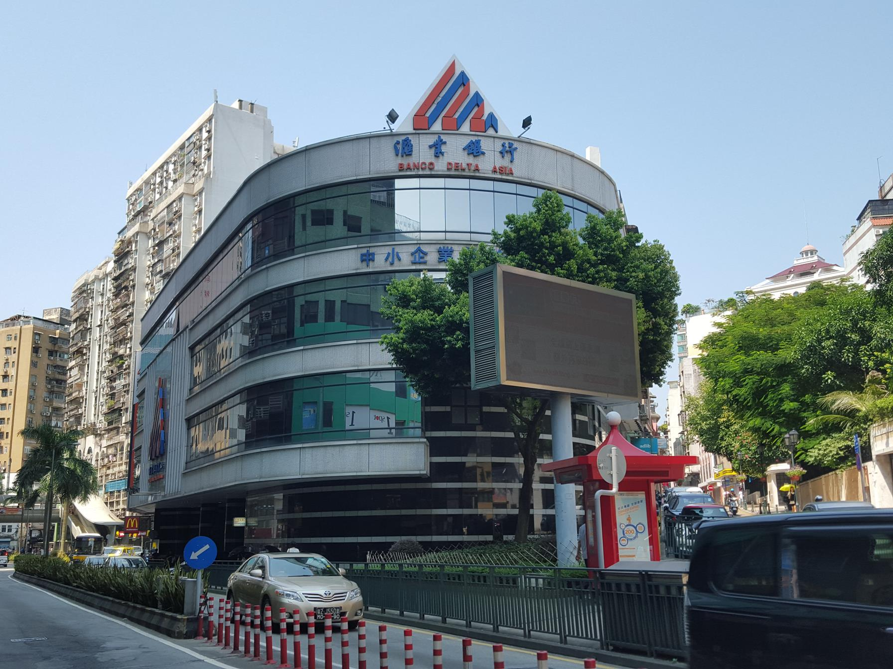 Headquarter of Delta Asia Bank